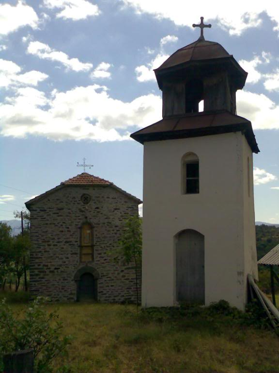 Village of Sushitsa, Poreche region, Republic of Macedonia